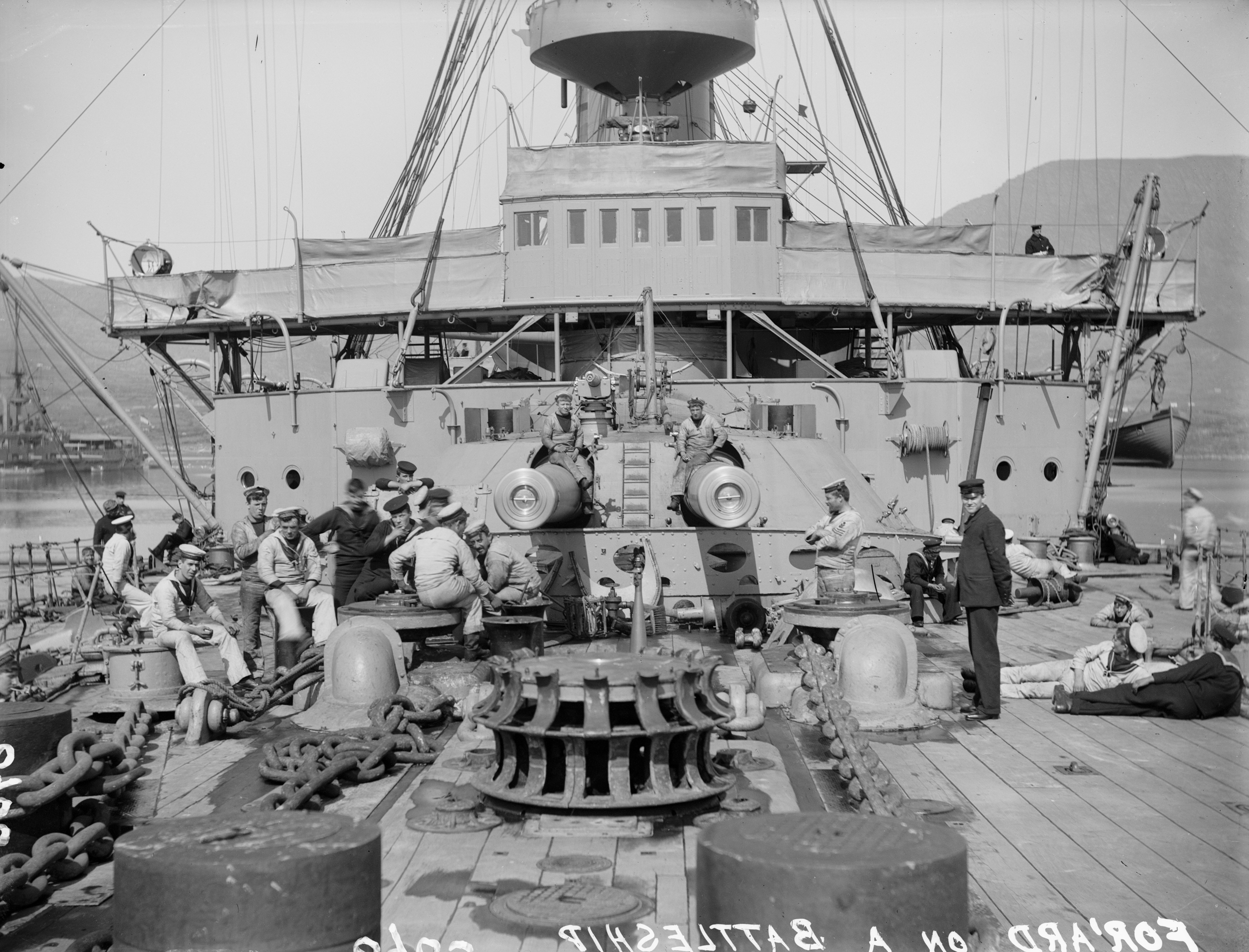 Crew sunning themselves in Castletownbere, Co. Cork. Comment : Appears to show an unidentified Canopus class battleship.